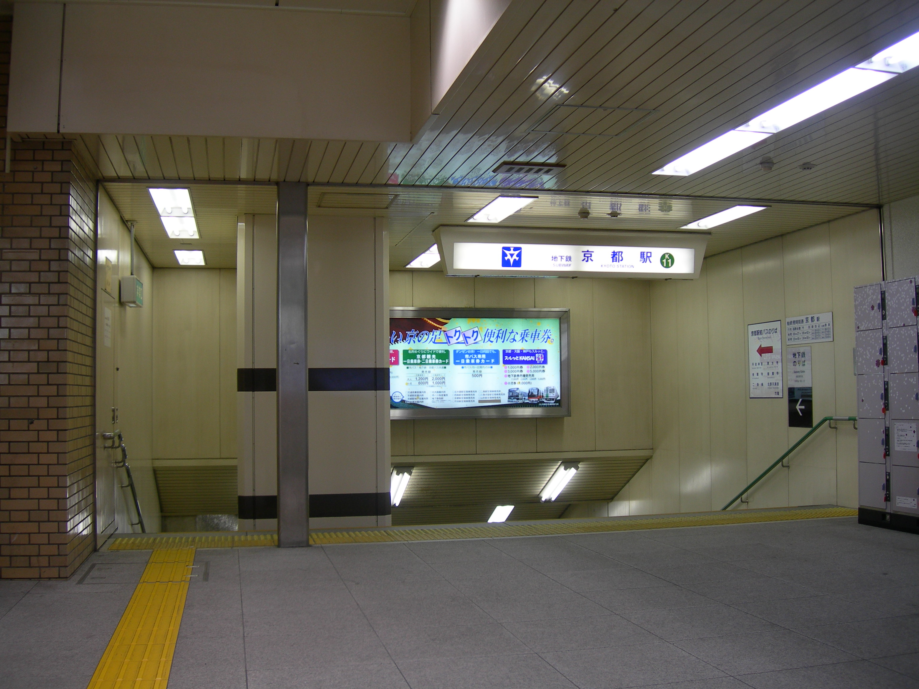 Kyoto Municipal Subway Kyoto Station